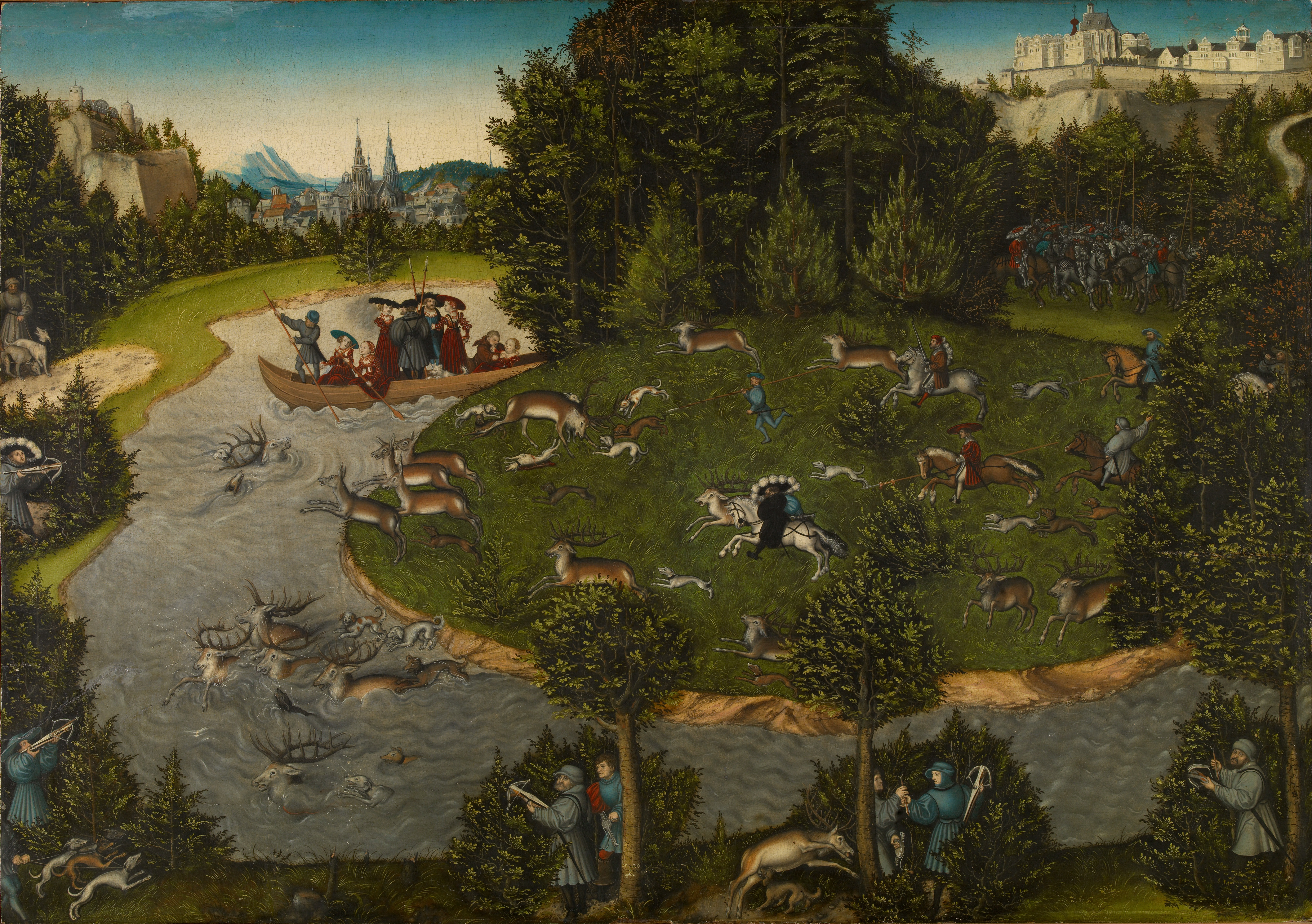 In the background there is a town and to the right a castle complex. In the centre of the foreground is the Elector Friedrich the Wise, further to the right is the Emperor Maximilian I. and on the far right Elector Johann the Steadfast. As neither the Elector Friedrich nor the Emperor Maximilian I. were still alive in 1529 it must be interpreted as a visual mementos commissioned by Johann the Steadfast to recall a hunt, which may have taken place in 1497 when both the Saxon princes were guests at Maximilian I.'s court in Innsbruck.